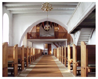 From Gammel Haderslev Church Photo by author Jens Christensen